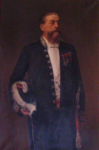 Portrait painting of Frederik Lints (1833-1900)